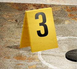 UF_Forensic Science